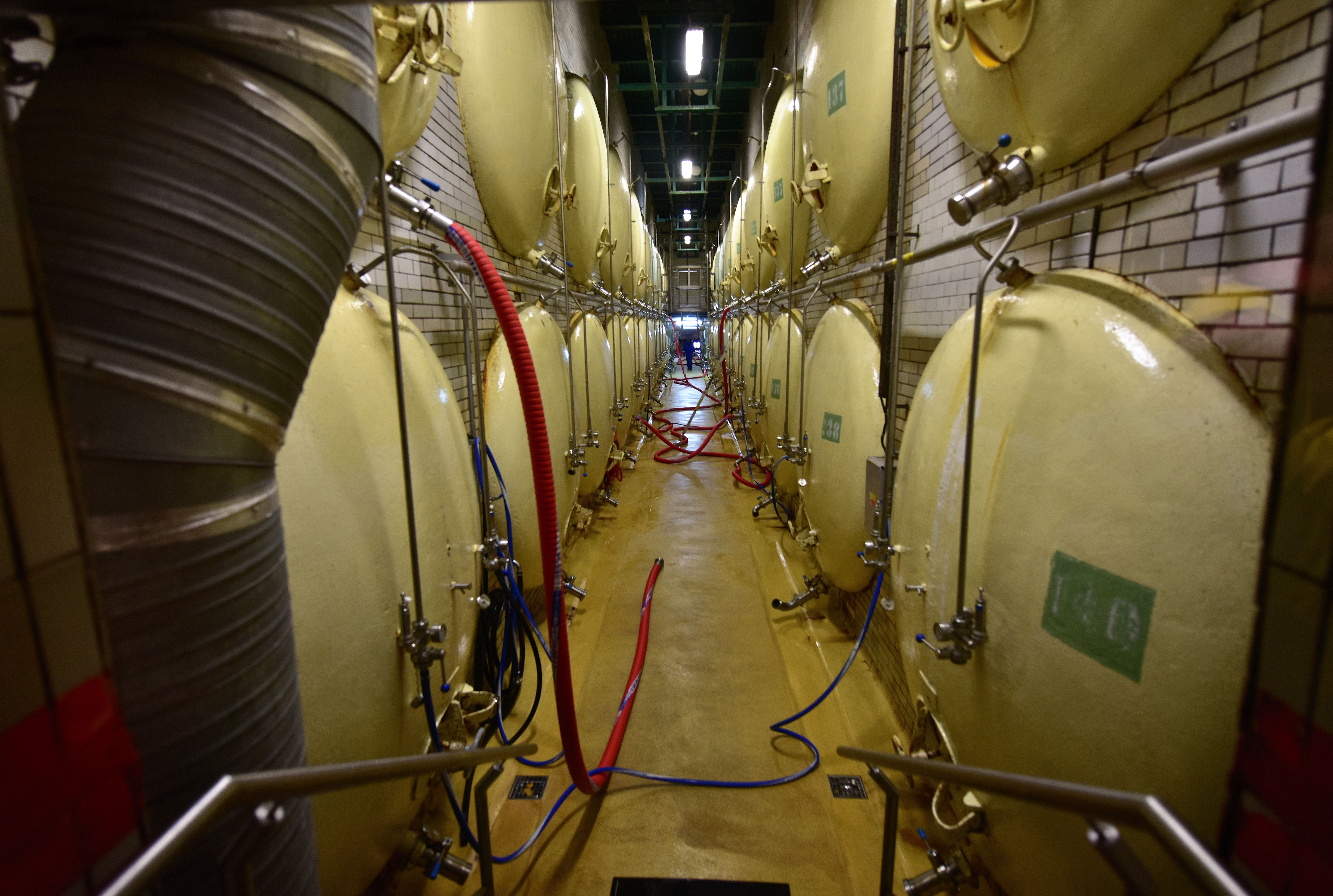 Radegast Brewery in Nošovice